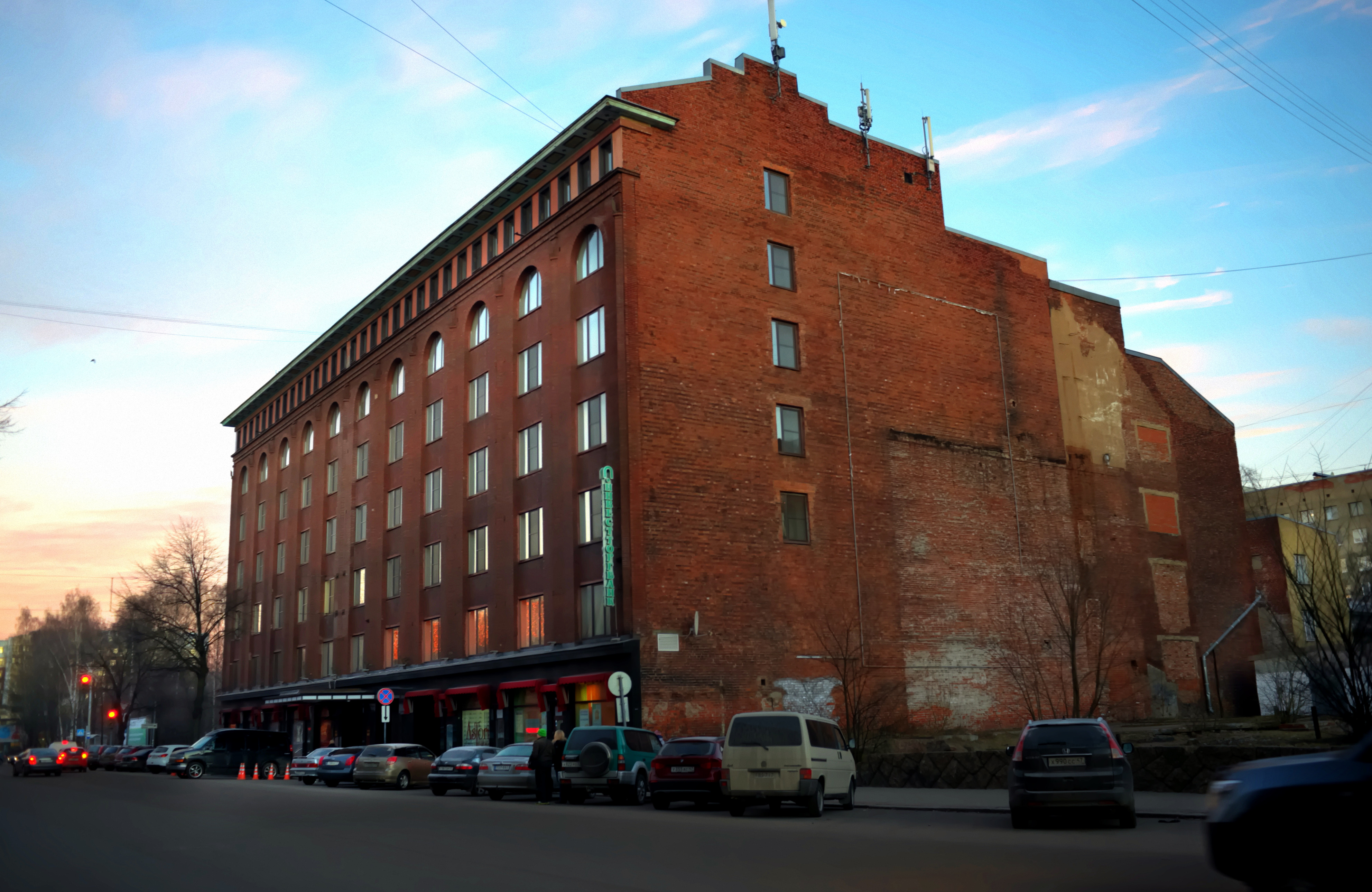 Karjala-lehti (Karjala magazine), Viipuri Vyborg Karjala Carelia Karelia 2015